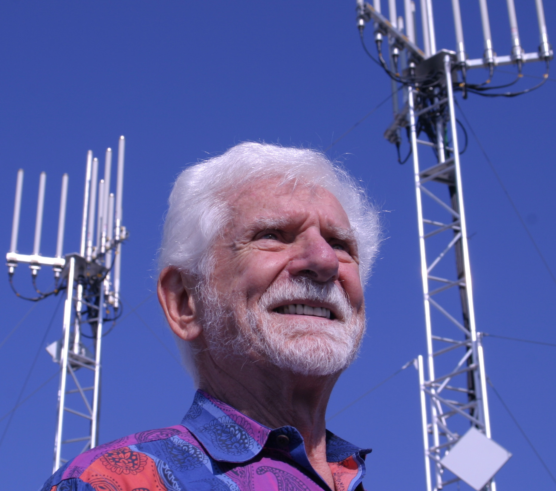 Picture of Martin Cooper standing in front of Two Antennas, dated October 2007